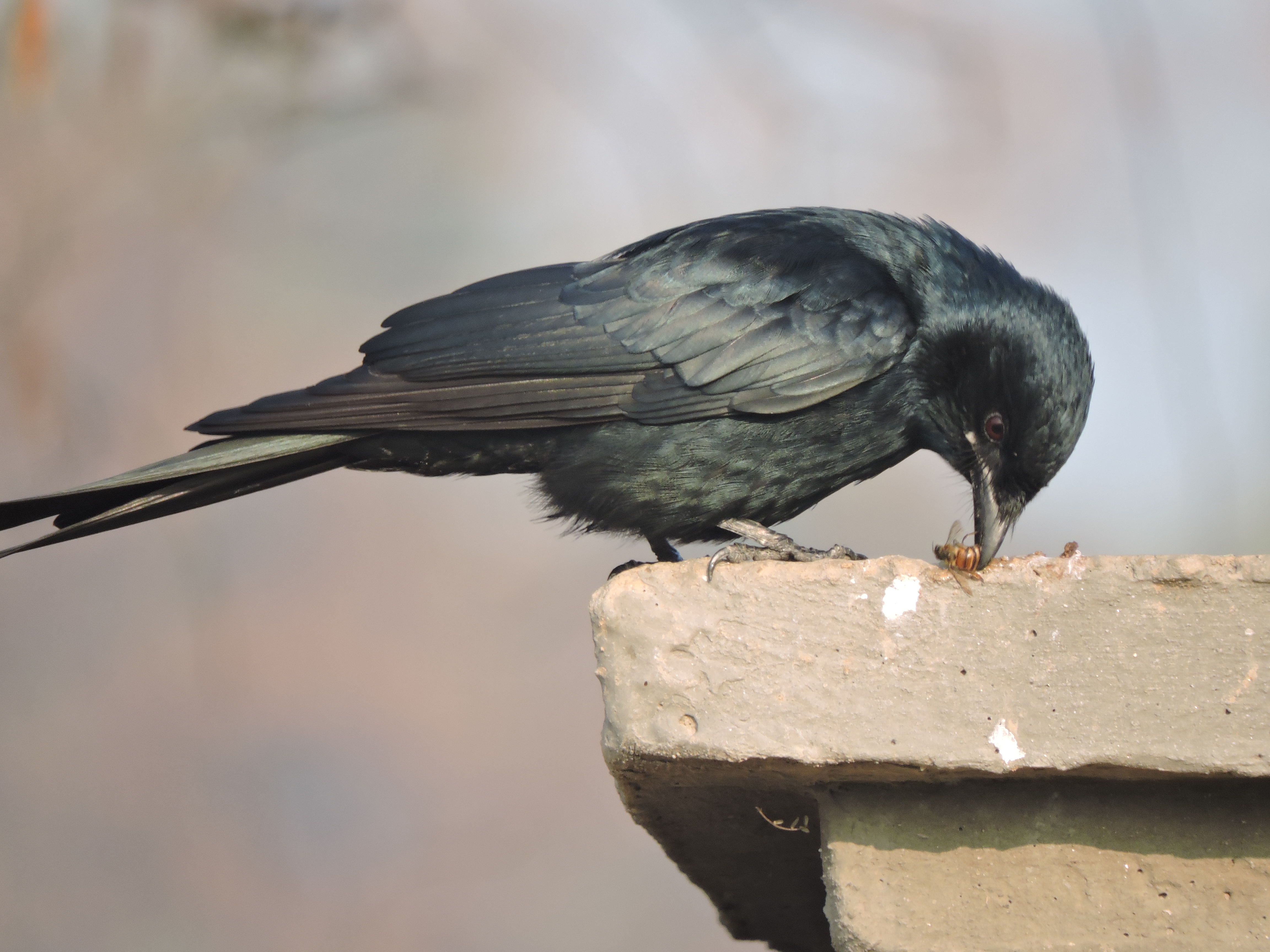 Black drongo, Chandigarh, India